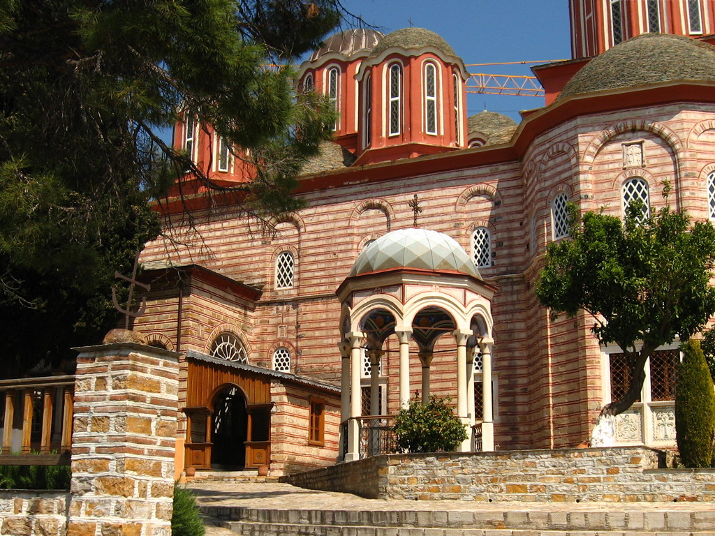 New church of Xenophontos monastery on Mount Athos.